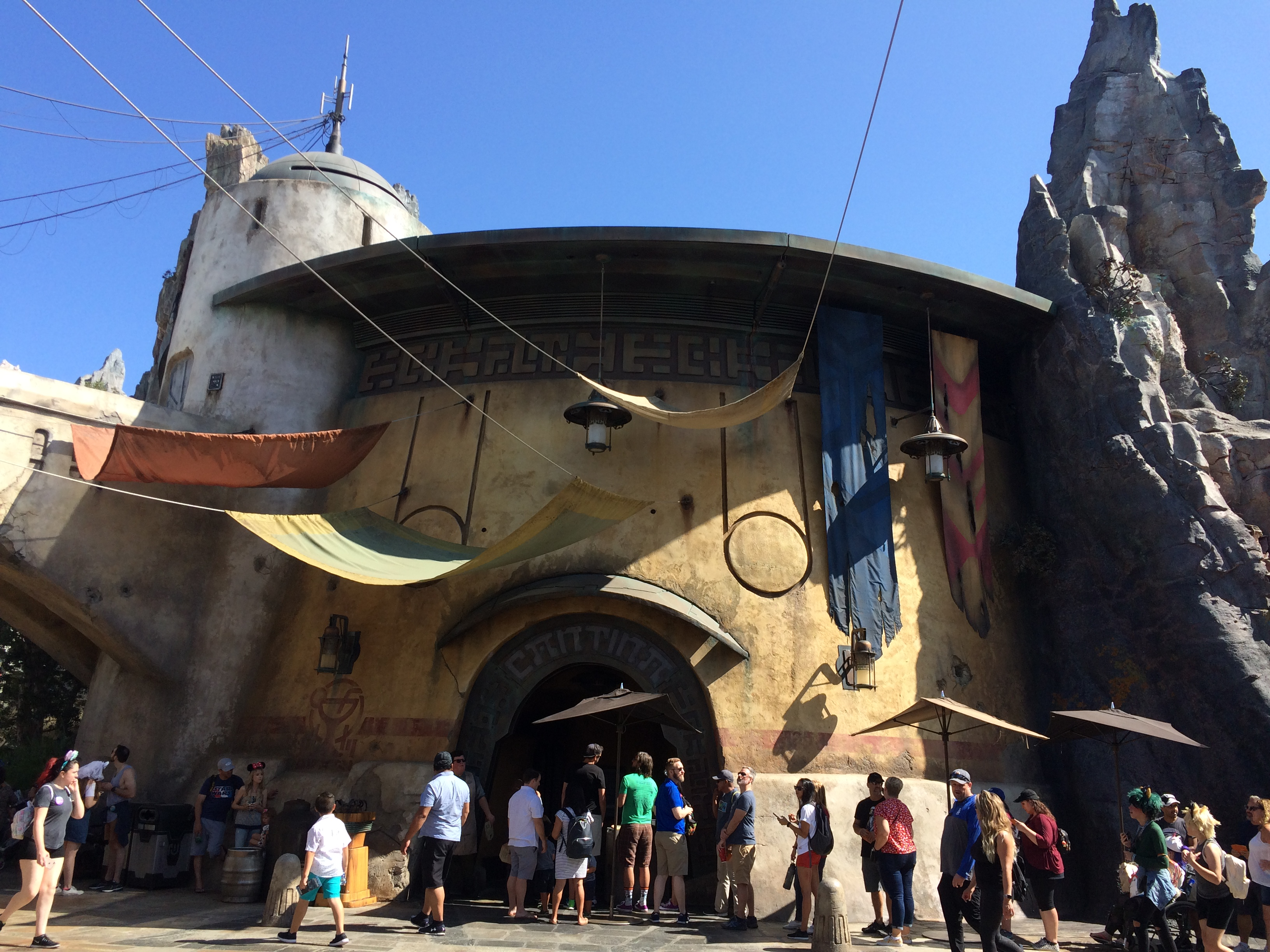 Entrance to Oga's Cantina at Star Wars: Galaxy's Edge at the Disneyland Resort. Taken on August 4, 2019.